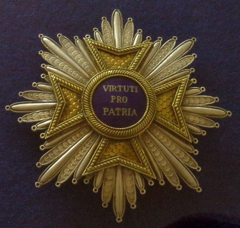 Military Order of Max Joseph, star of Grand Cross. Kingdom of Bavaria. The exhibition of the Tallinn Museum of Orders of Knighthood, Estonia.